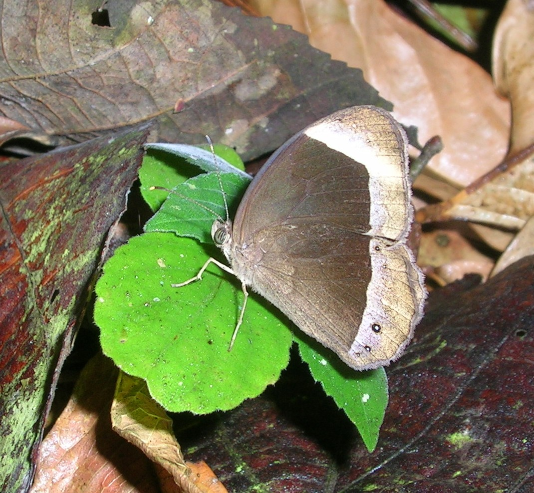 Unidentified Mycalesis butterfly from Wayanad, India